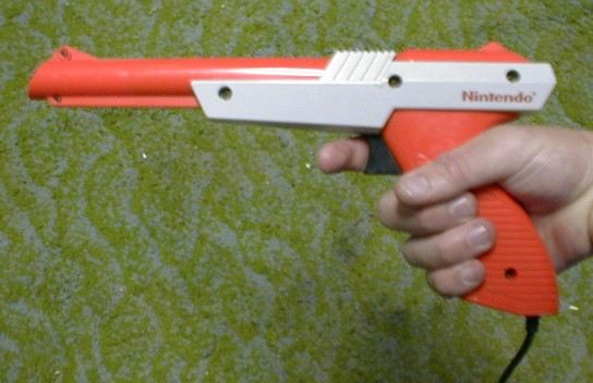 Nintendo Zapper brand light gun, manufactured after Nintendo changed the handle and barrel from dark gray to orange to comply with changes to toy safety regulations. Length of barrel: 282 mm